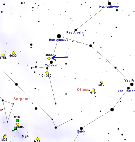 IC 4665